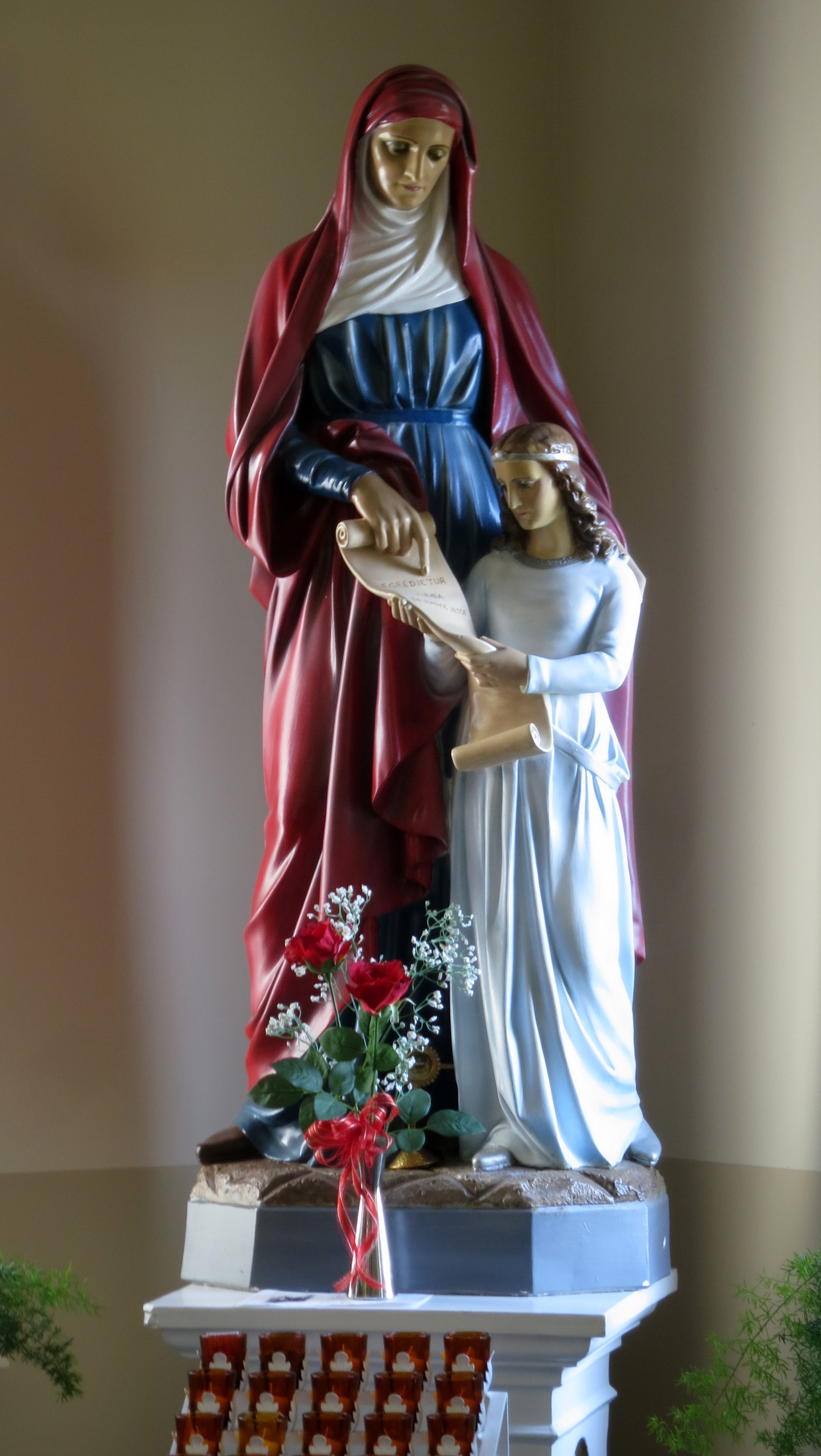 Saint Louis Catholic Church (North Star, Ohio) - St. Anne educating the Virgin Mary statue